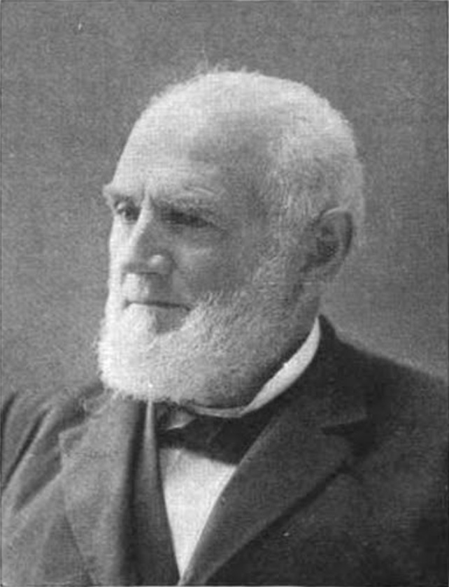 Michigan Justice Thomas Russell Sherwood, The Green Bag, Vol. 2, p. 389